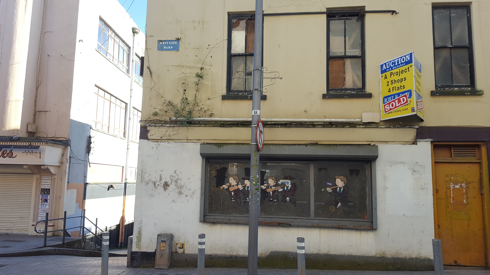 this derelict building is an example of the Westgate area of Drogheda town.